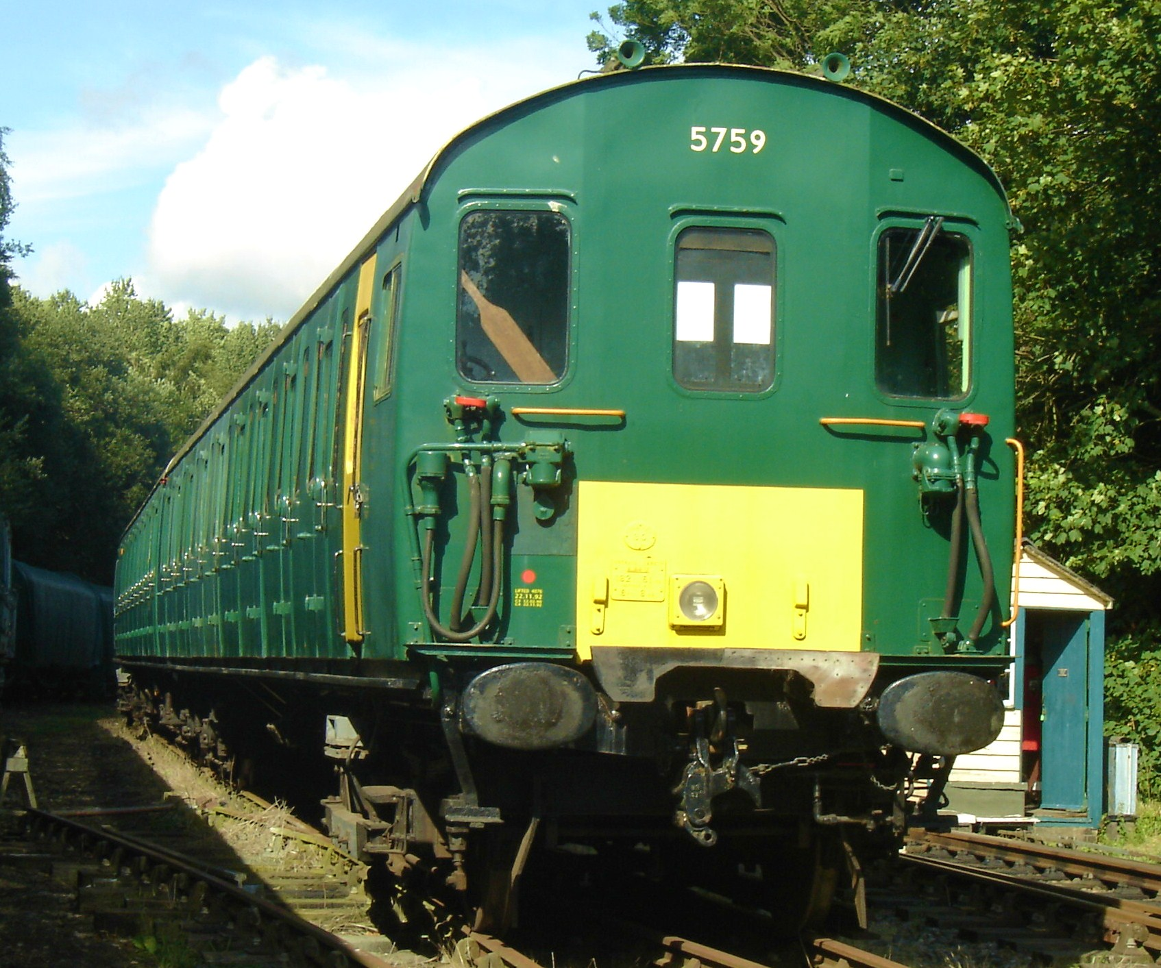 Preserved 2EPB 5759 Shepherdswell